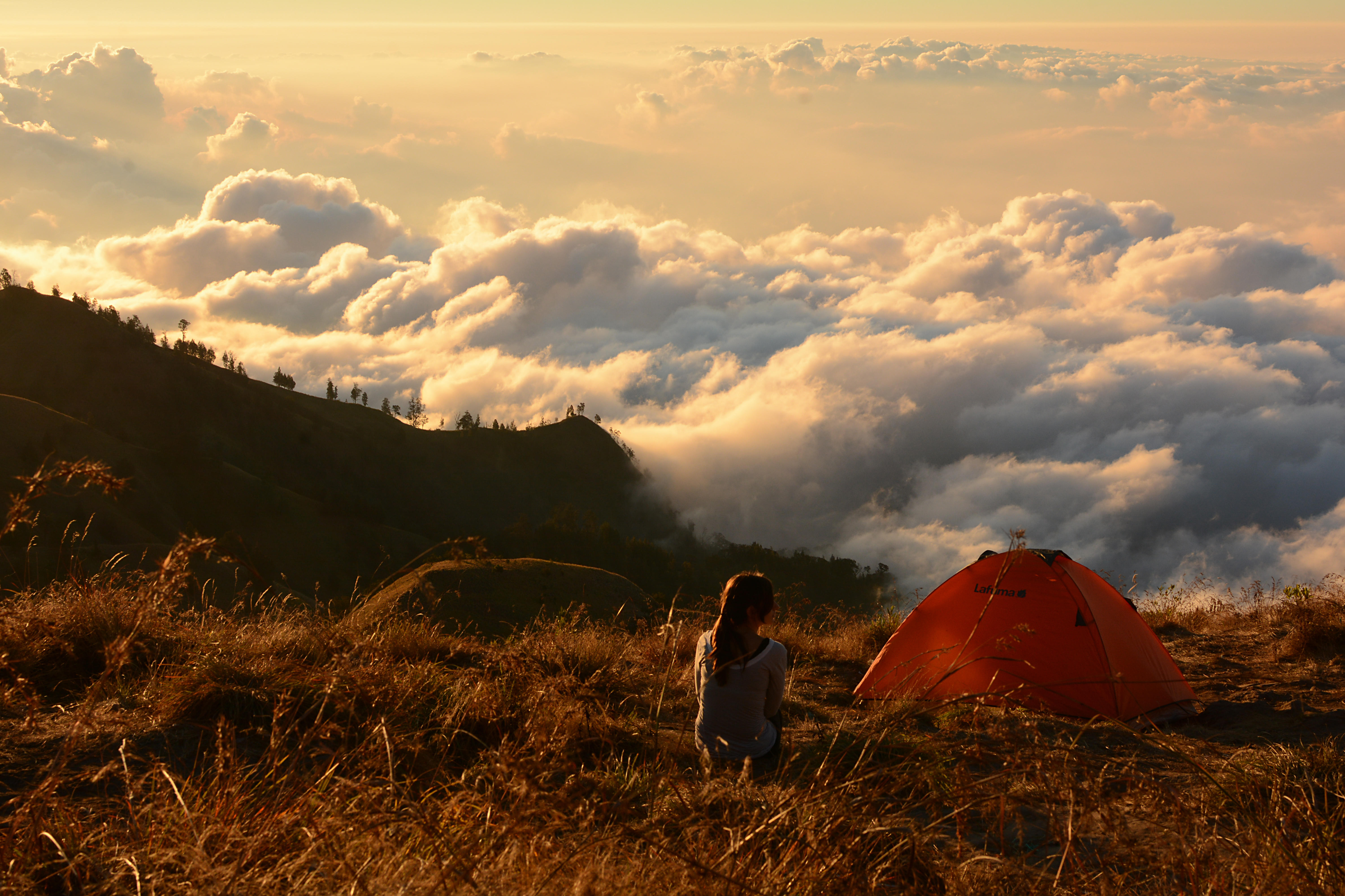 The Rinjani hike is a popular offering for tourists visiting Bali, with guided overnight hikes that lead to the crater rim and beyond.